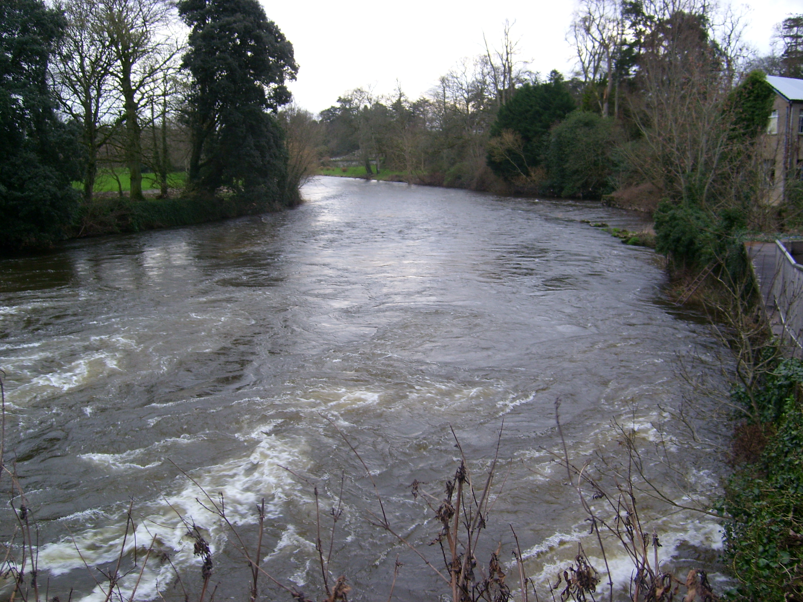 River Suir in Cahir.